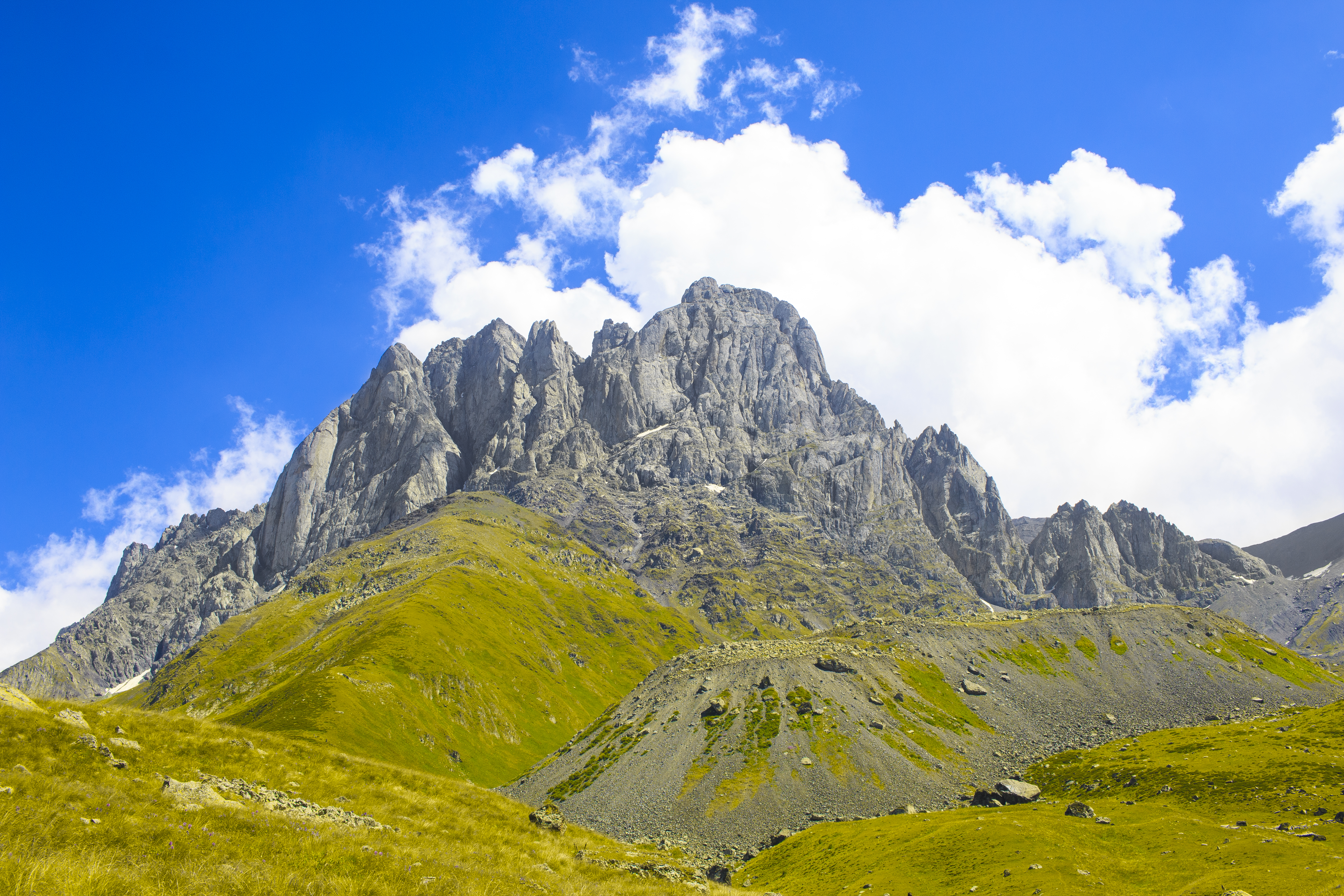 ჭაუხები, ჯუთა